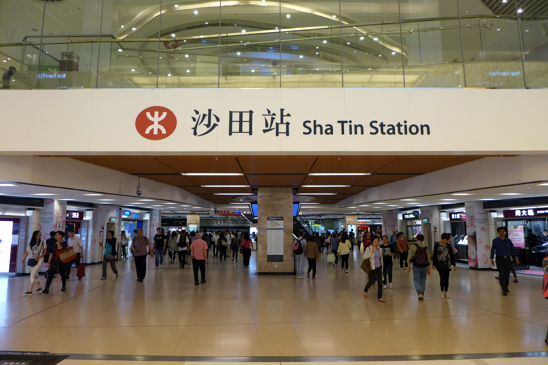 Sha Tin Station Exit A